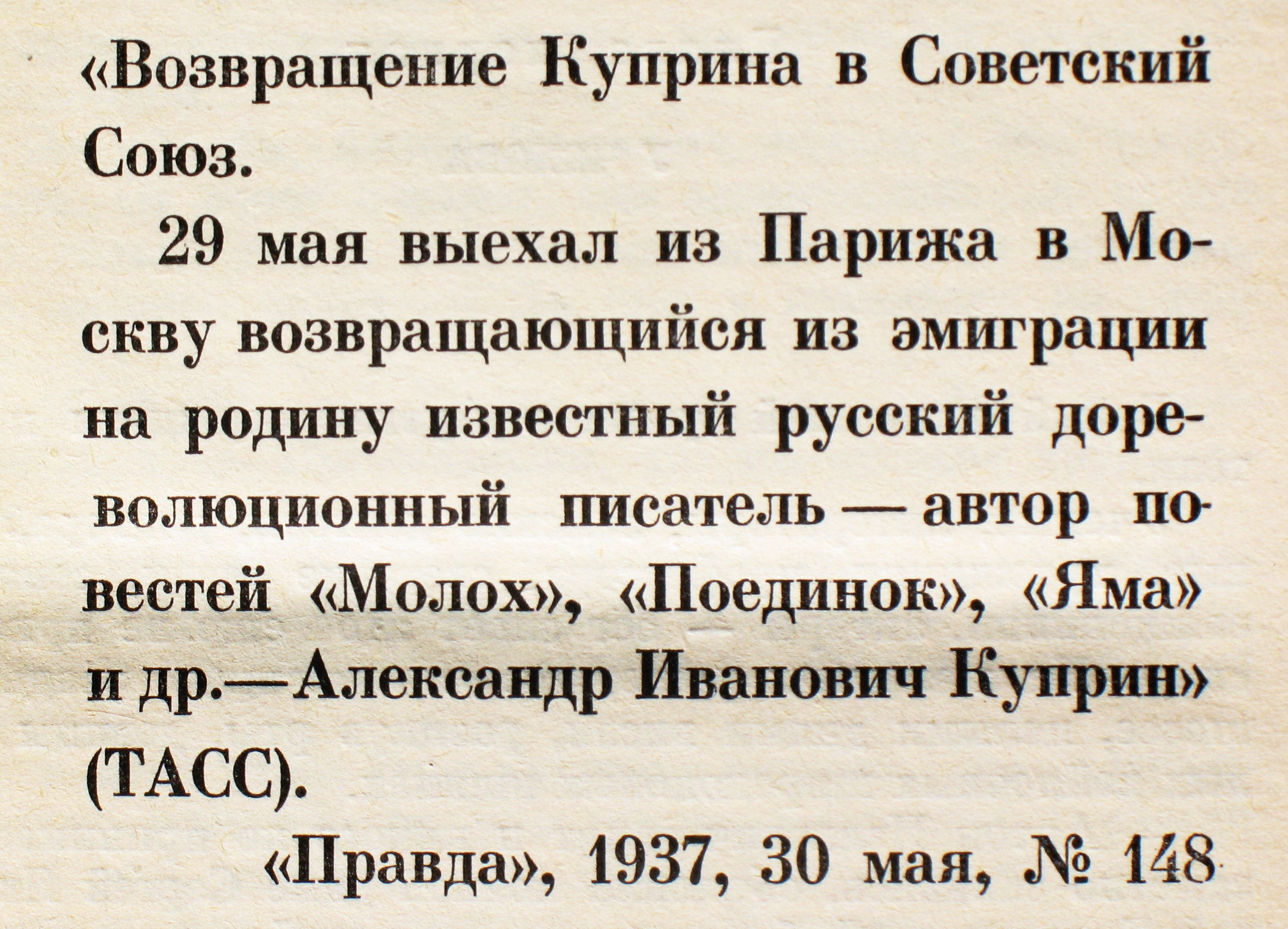 Russians: A.Kuprin back to USSR. "Pravda" paper, 30 may 1937 #148.